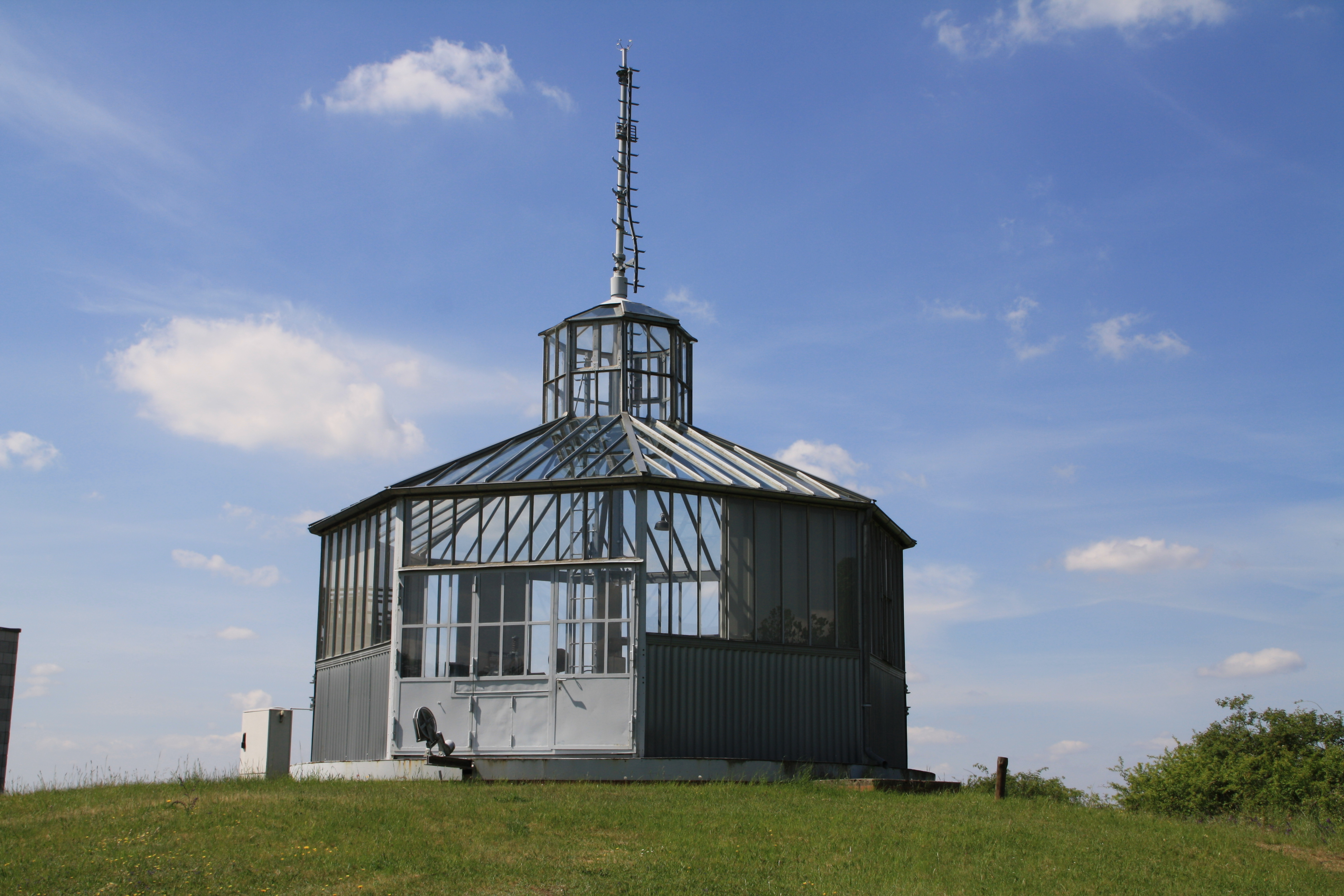 historical winch house at Meteorologic Observatory Lindenberg, Germany